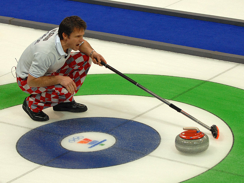 Thomas Ulsrud, skip of the Norwegian curling team, at the Vancouver 2010 Olympics.